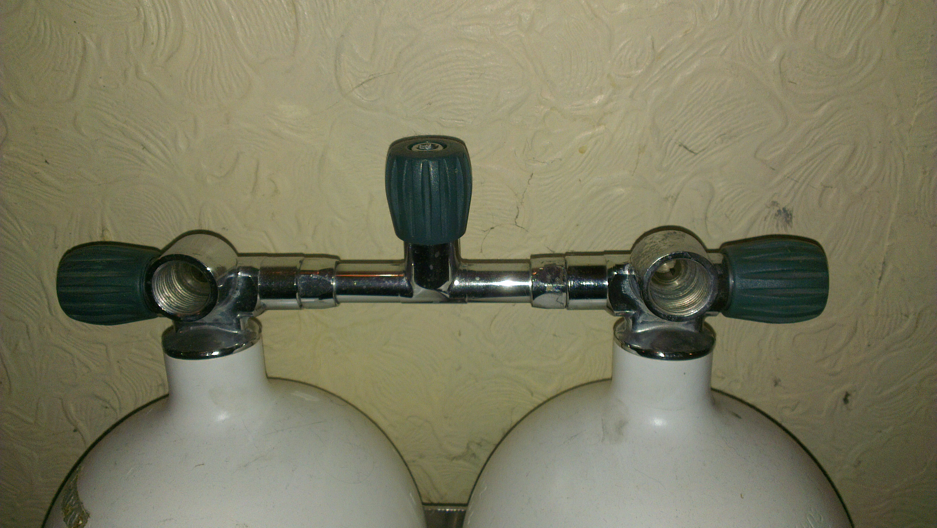 Two scuba diving 300 bar cylinders are connected together by an isolating manifold (detail).